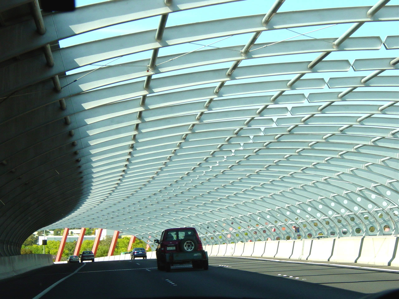 Heading through the Sound Tube on the Tullamarine Freeway in Melbourne, Victoria, Australia.